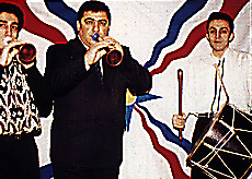 Assyrian folk music picture from a wedding.